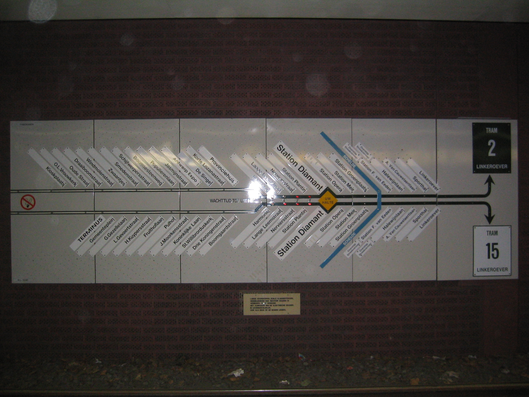 List of Tram line 2 and 15 of tram in Antwerp/Belgium, List shows the map of station Diamant